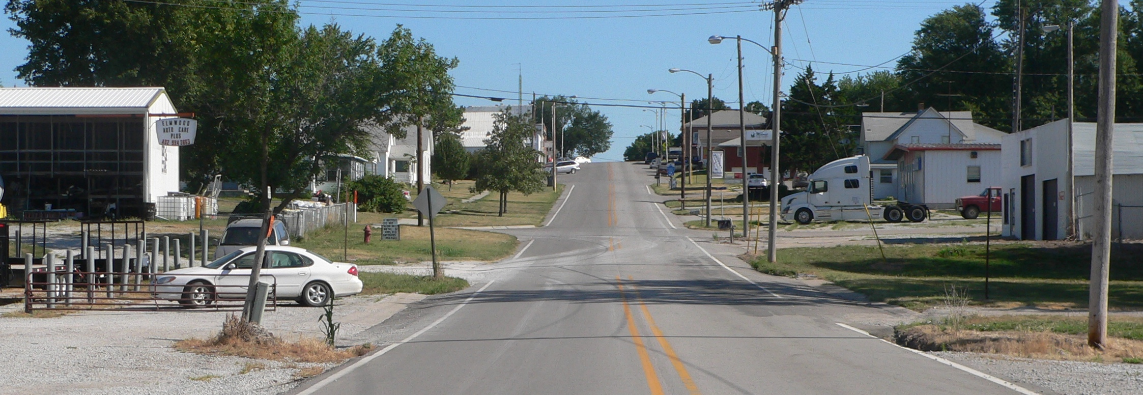 Downtown Elmwood, Nebraska: 4th Street, facing north from southern edge of town.